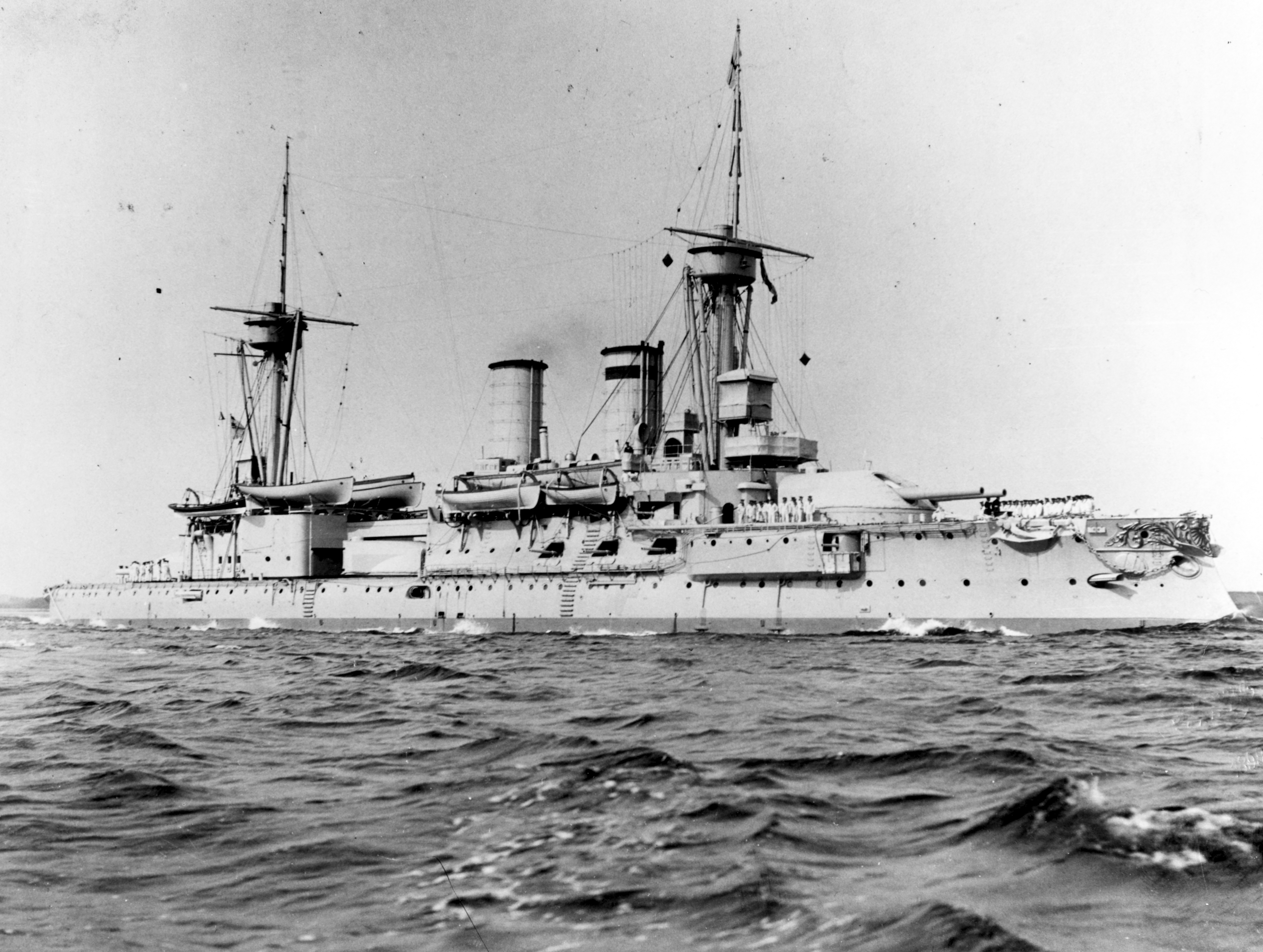 Title: KURFURST FRIEDRICH WILHELM (German battleship, 1891-1915) Caption: Photo by Arthur Renard, Kiel, 1899. This ship became the Turkish HEIREDDIN BARBAROSSA in 1910.